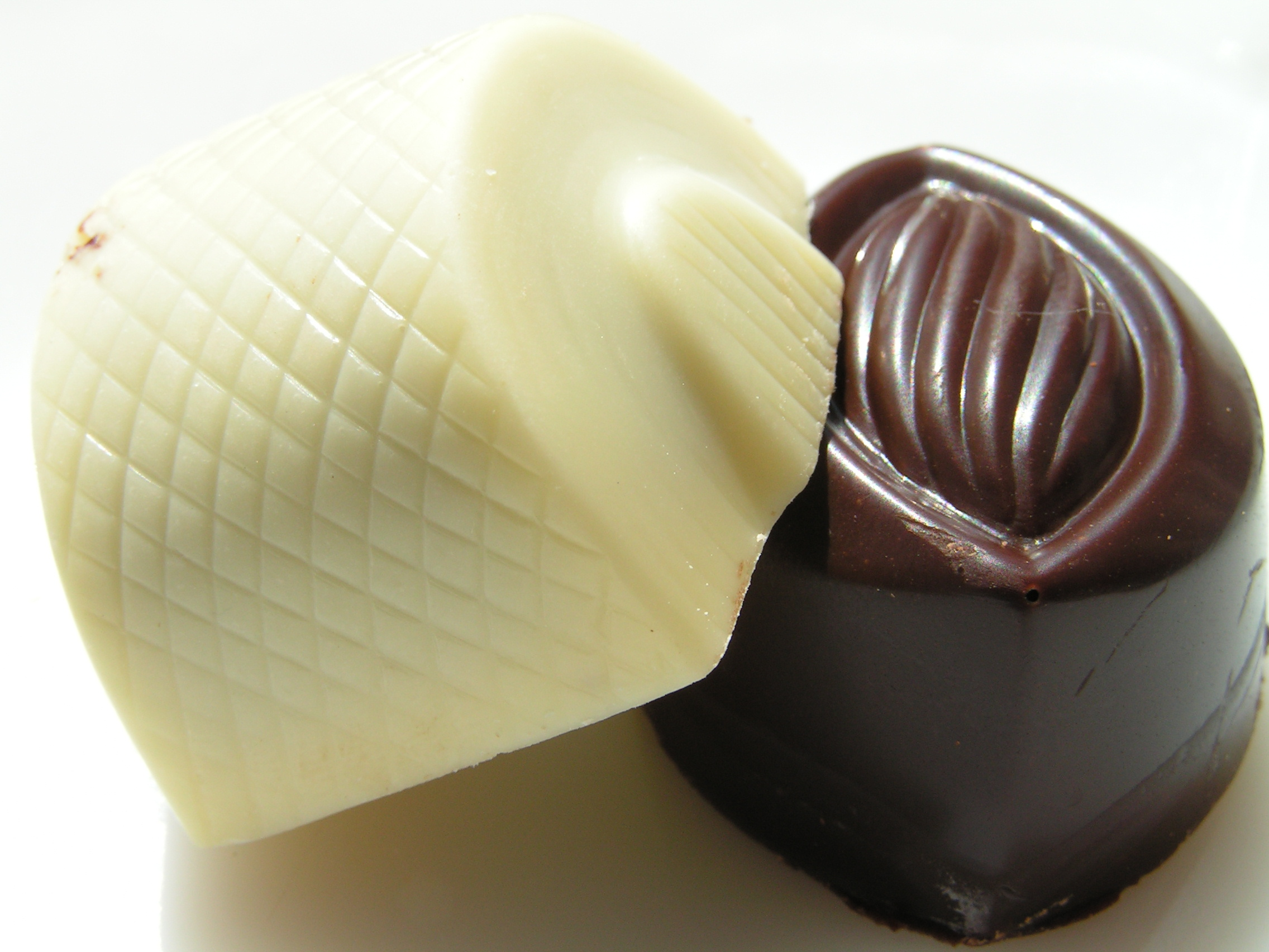 Belgium Chocolates #2